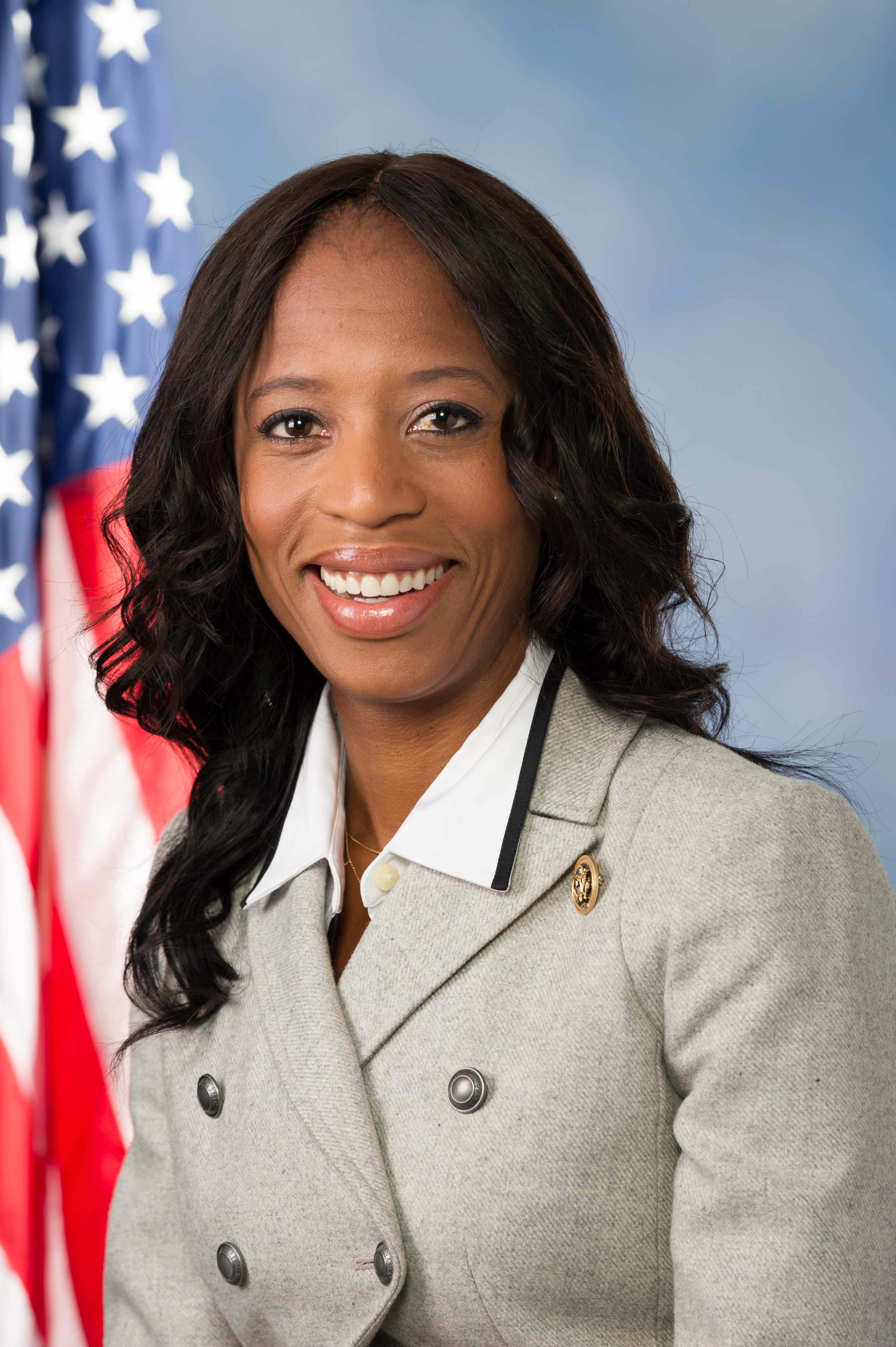 Mia Love official portrait